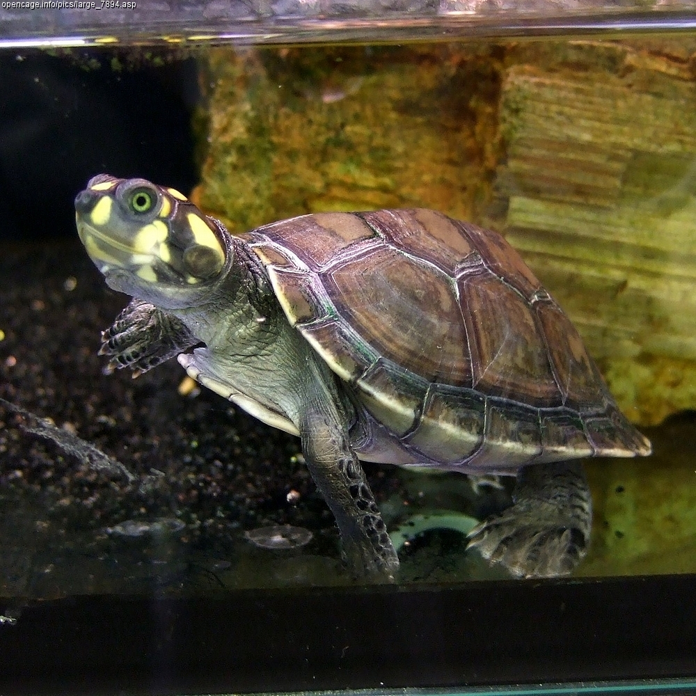 モンキヨコクビガメ Yellow-spotted river turtle Kingdom:Animalia Phylum:Chordata Class:Reptilia Order:Testudines Family:Pelomedusidae Genus:Podocnemis 動物界 脊索動物門 爬虫綱 カメ目 ヨコクビガメ科 ナンベイヨコクビガメ属 Species Podocnemis unifilis Location: Chuo-ku, KOBE, Japan Other photos: NCBI Taxonomy ID:227871 Copyright: OpenCage